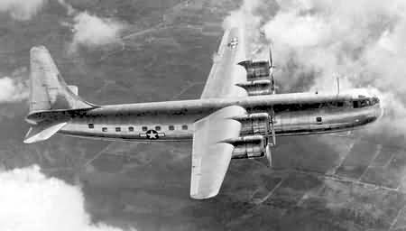 A Consolidated R2Y-1 of the U.S. Navy in flight.